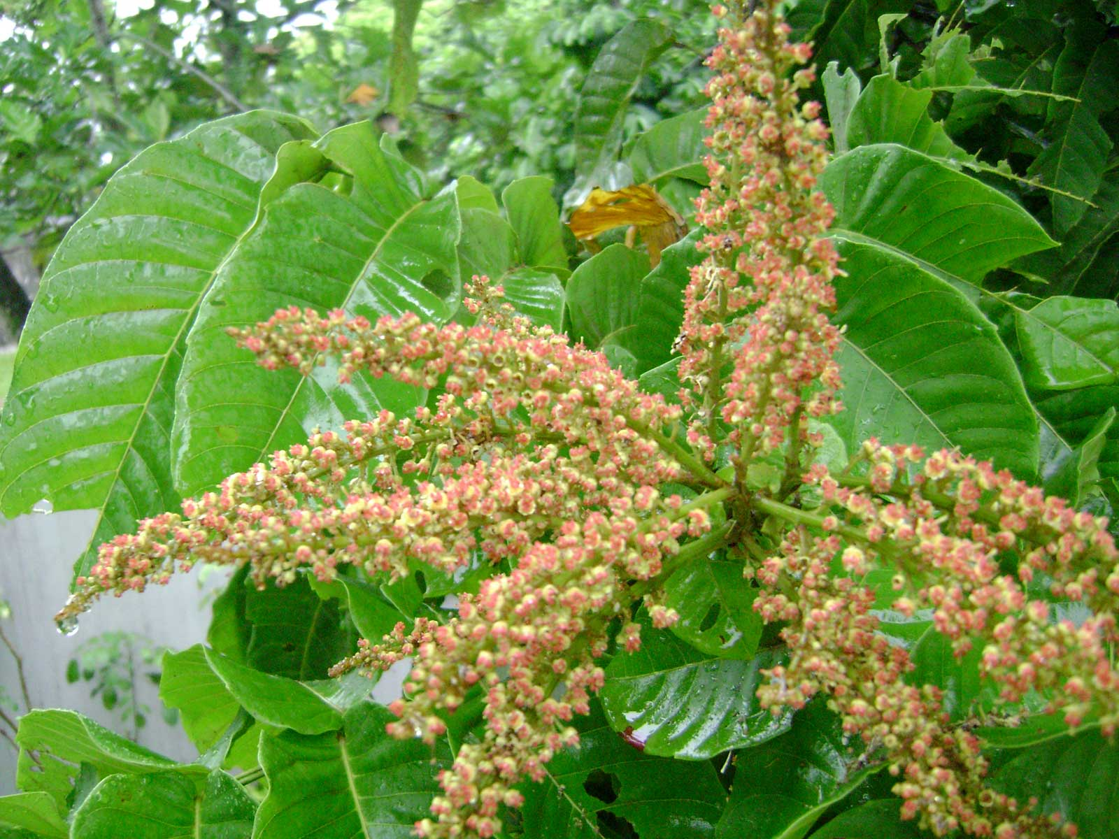 Pometia pinnata, flowering, {tava} in Tonga